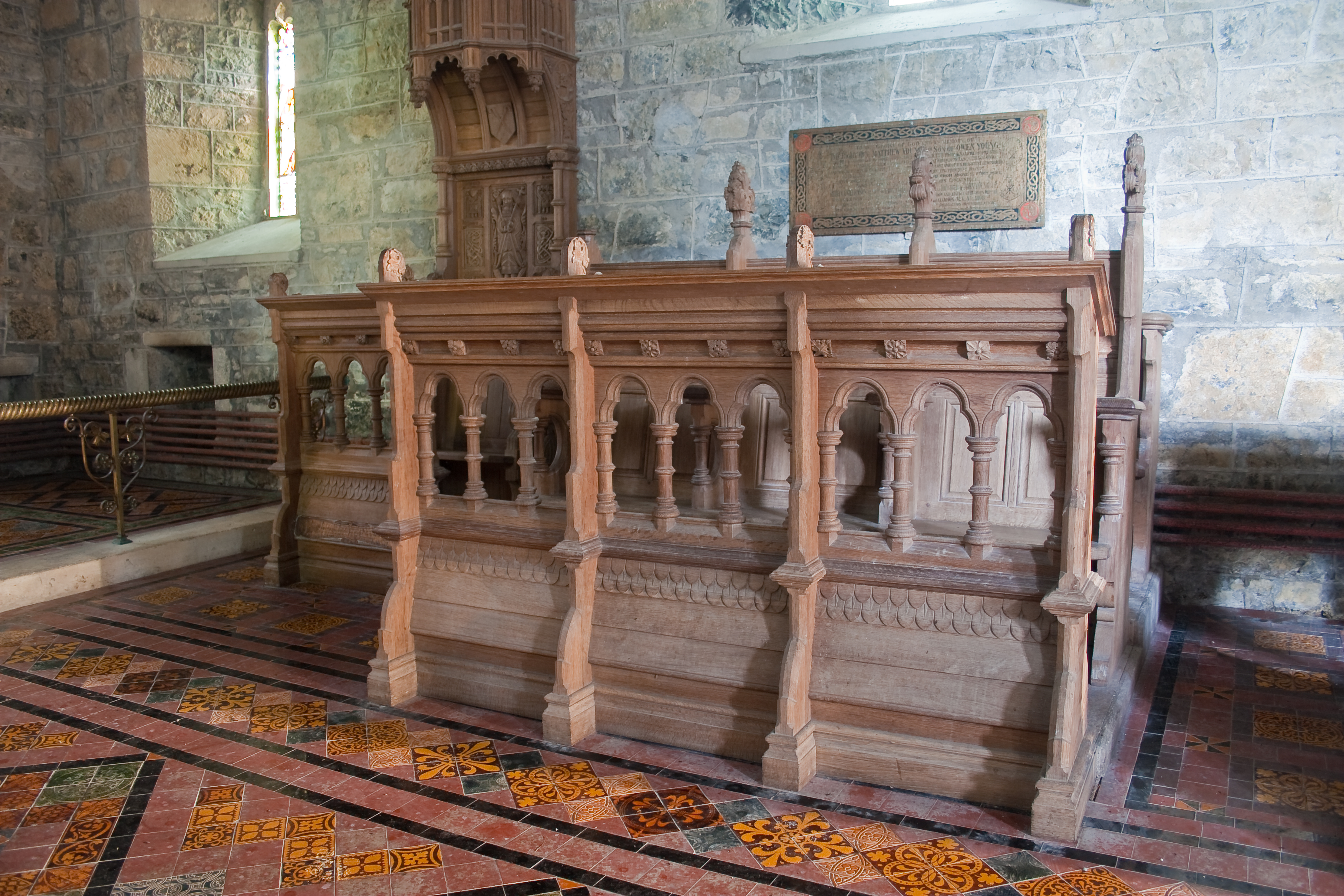 Clonfert Cathedral, Clonfert, County Galway, Ireland Choir stalls at the south side of the choir. The stalls are carved from local fumed oak c. 1850. The decorative tiling is of c. 1870–1880. (See Peter Galloway: The Cathedrals of Ireland, ISBN 0-85389-452-3, p. 47.)